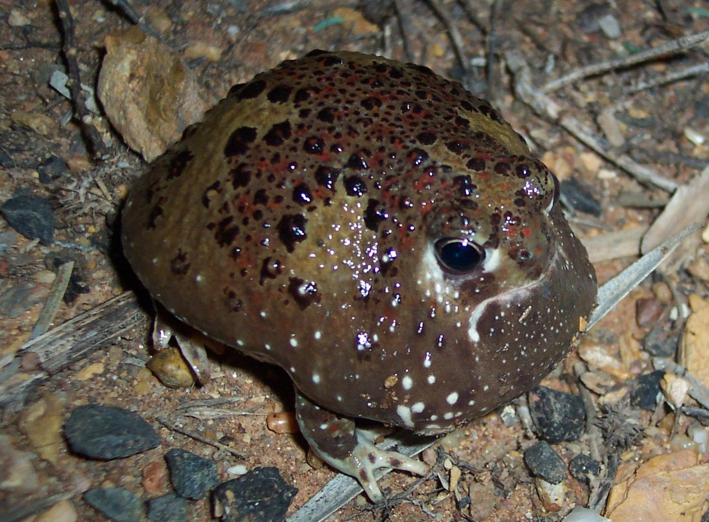 Male Notaden bennettii